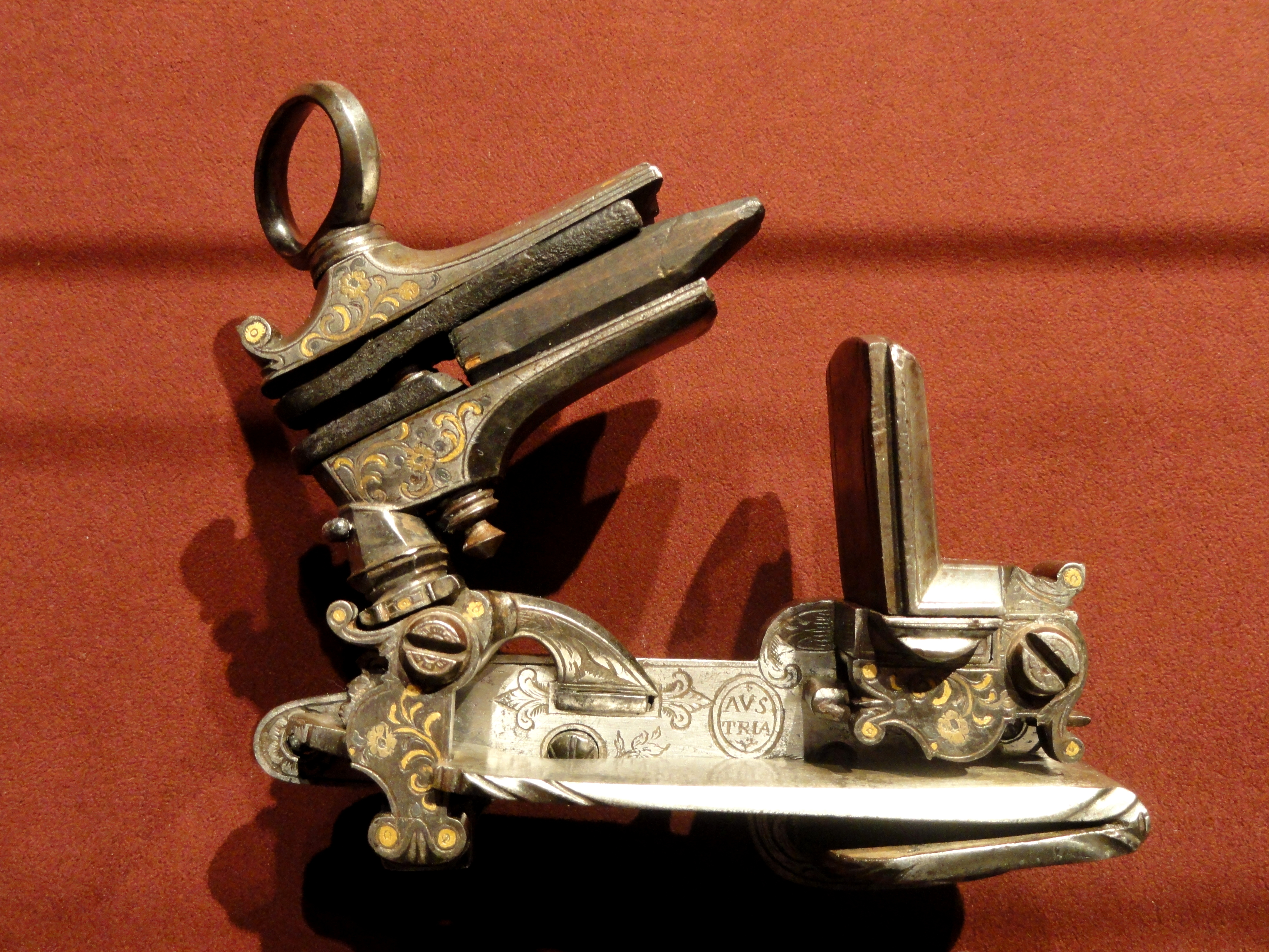 Exhibit in the Cleveland Museum of Art, Cleveland, Ohio, USA. This artwork is old enough so that it is in the public domain.